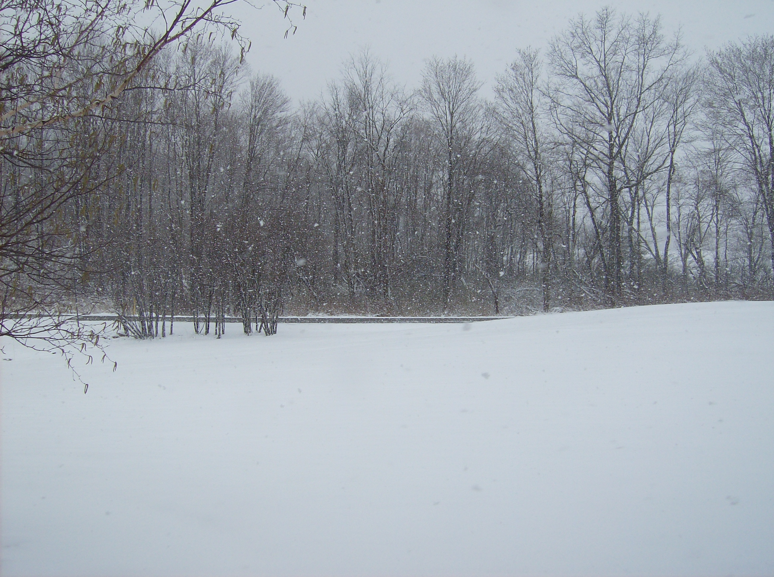 Heavy snowfall on Good Friday 2007 in the countryside near Volant, Pennsylvania, United States. Approximately six inches of snow had fallen by late morning.